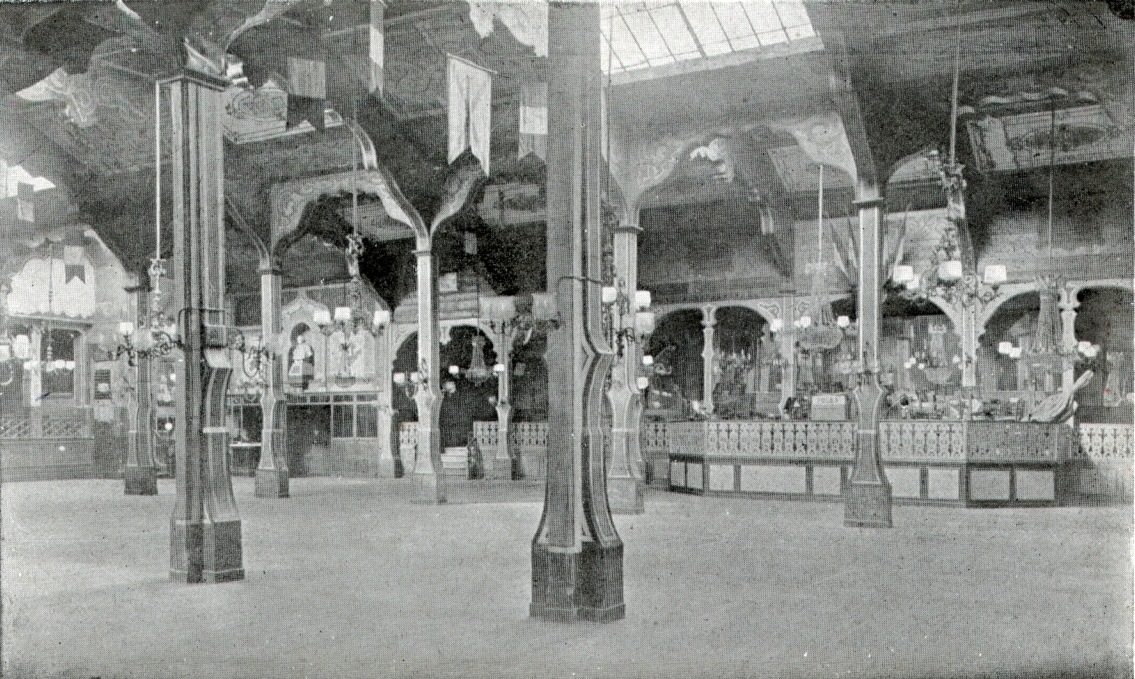 Balroom dancing hall of "Bal Bullier", Paris